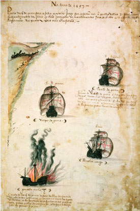 Depiction of the 1st Portuguese India Armada (1497 fleet led by Vasco da Gama) from the Livro das Armadas (Academia de Ciencias de Lisboa)